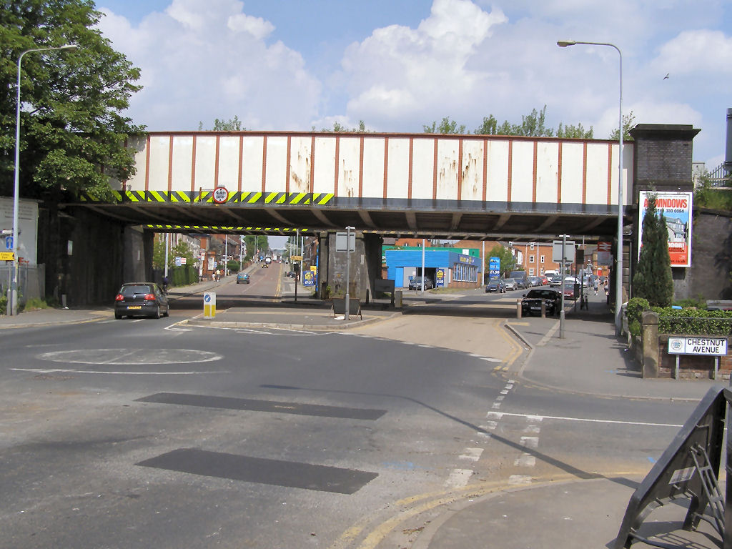 Bridge at Walkden Station, near to Walkden, Salford, Great Britain. The Bridge over Walkden Road (A575)